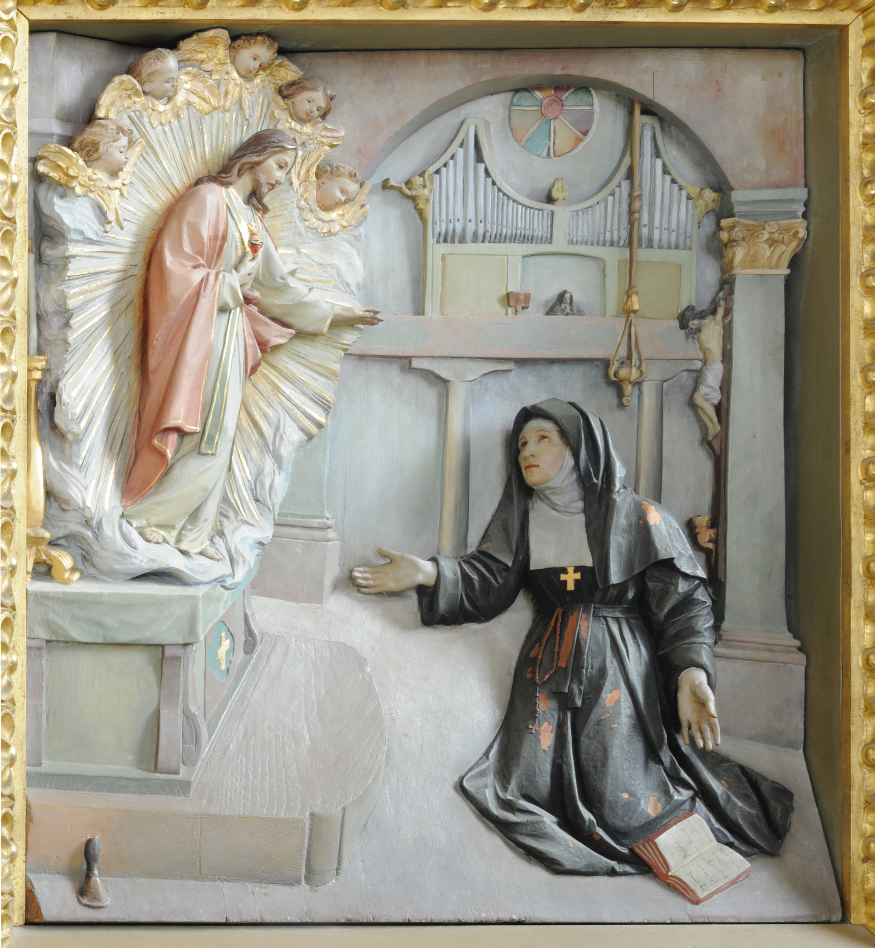 Jesus appearing to Marguerite Marie Alacoque .Relief polichromed wood sculpture by Johann Baptist Moroder-Lusenberg about 1910 in the Parish Church of Urtijëi